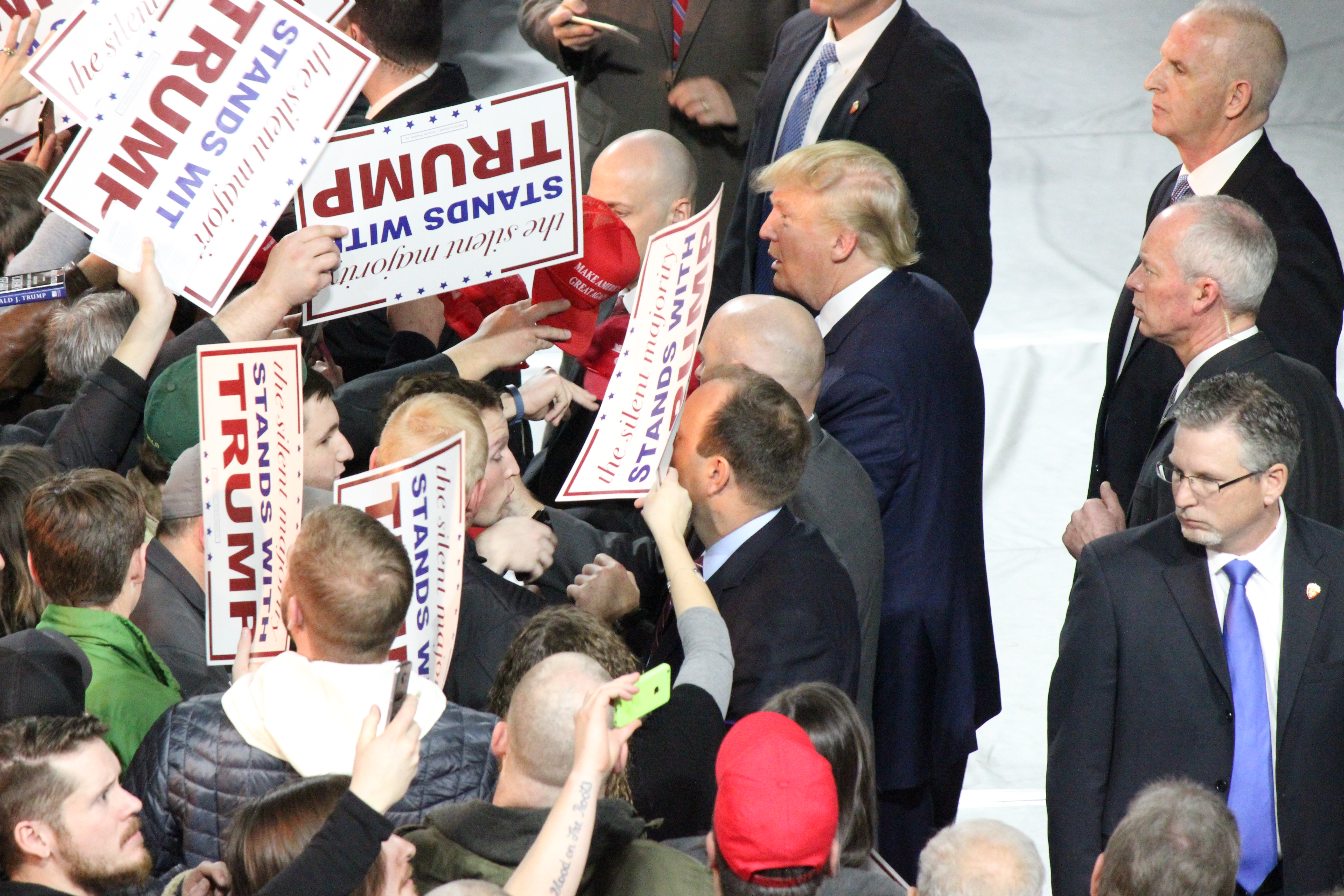 Donald Trump makes a campaign stop at Muscatine Iowa on 1/24/2016